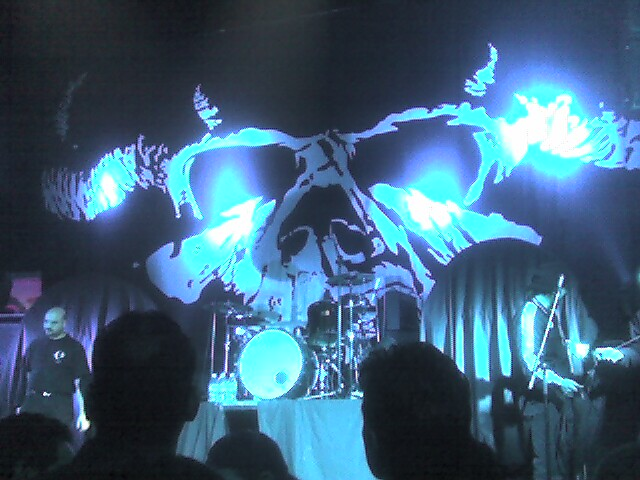 Danzig's stage in New York City